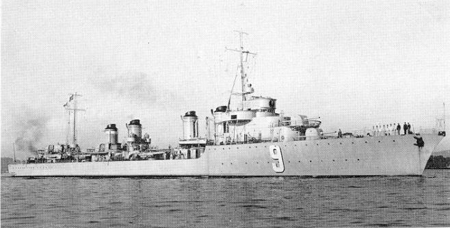 The Kersaint (Vauquelin class destroyer) in 1934-1936, ONI203 booklet for identification of ships of the French Navy, published by the Division of Naval Inteligence of the Navy Department of the United States (9 November 1942).